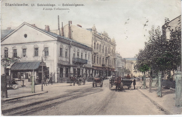 Будинок Регенштрайфа